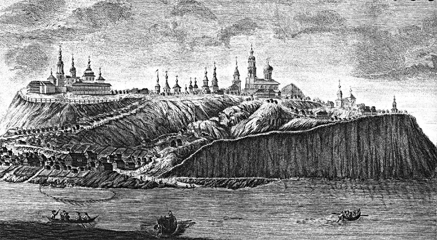 Panorama of the city of Sviyazhsk, Russia.